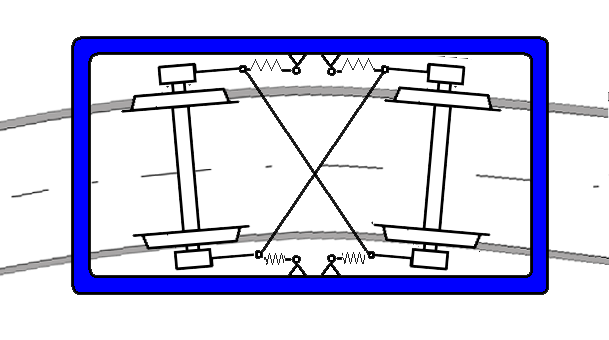 Bogie with radial steering axles with cross coupling. Lateral suspension is not mentioned. Picture based on Česky: Podvozek s radiálně stavitelnými dvojkolími s křížovou vazbou. Příčné vypružení není znázorněno.